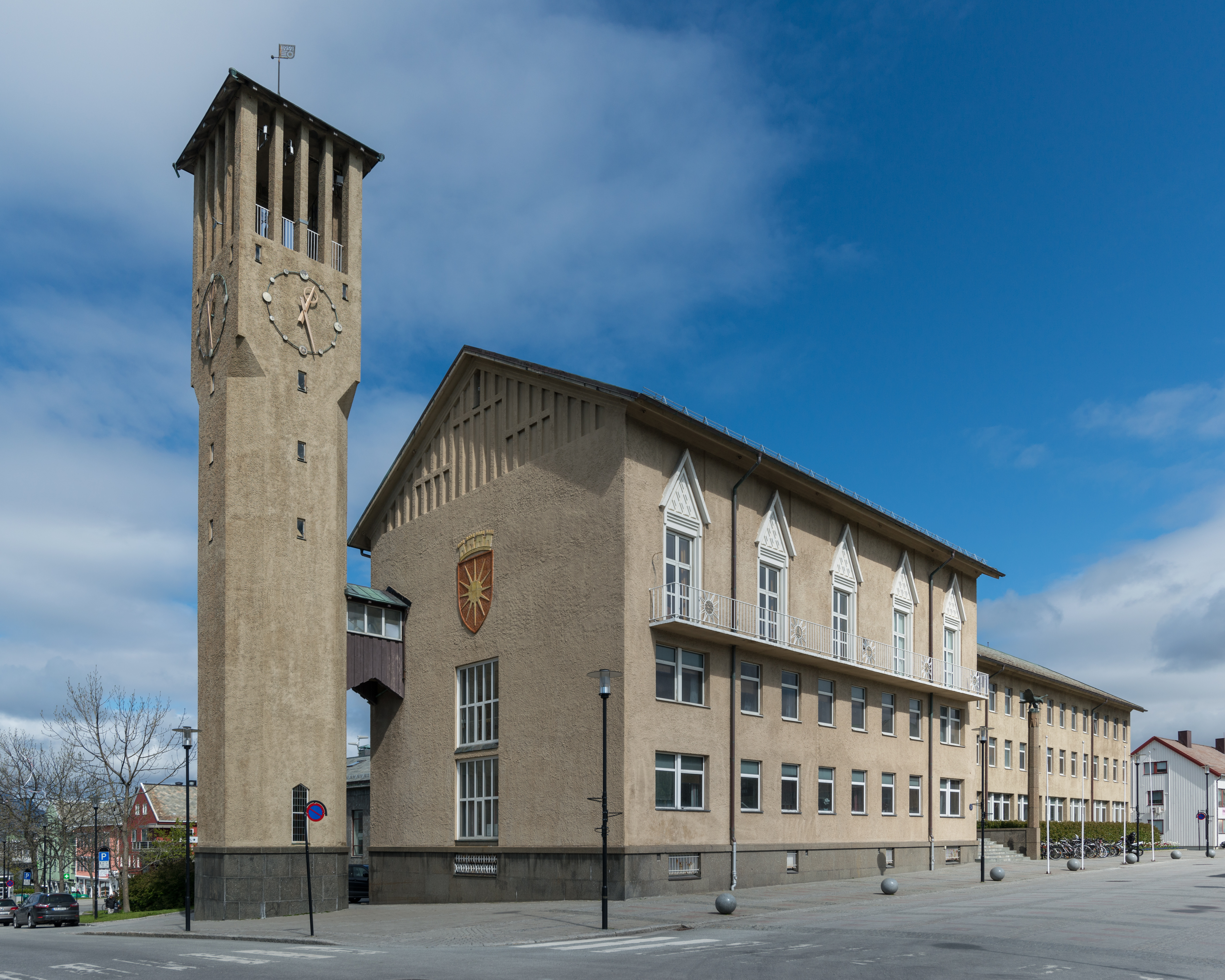 A south view of the town hall of Bodø